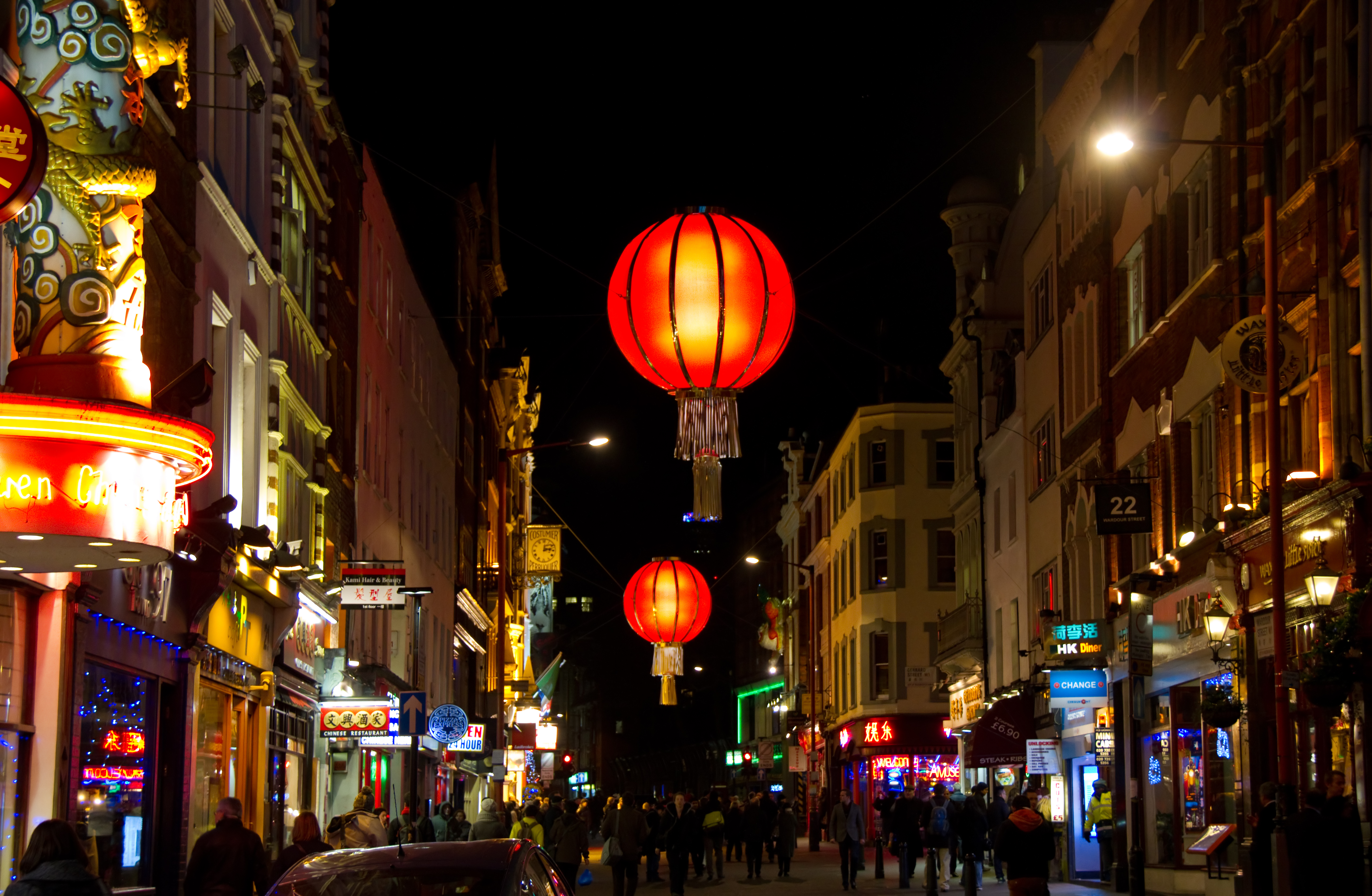 Chinese Decoration 2